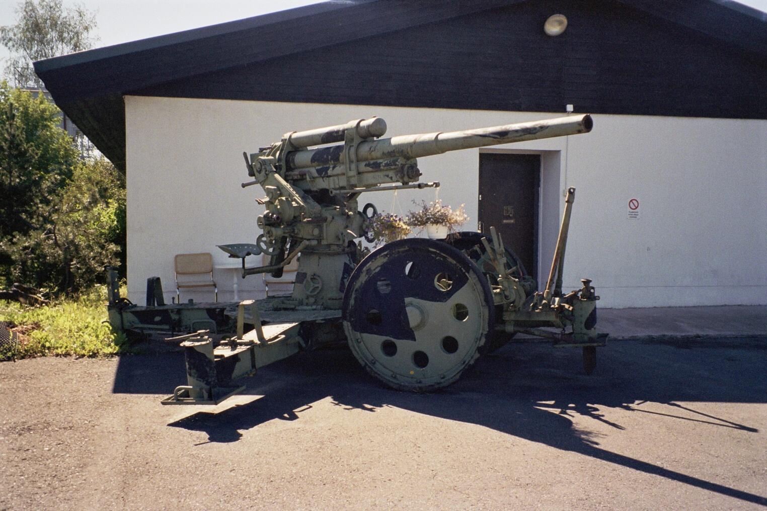 76 mm anti-aircraft gun model 1931 in Kempele, Finland. The weapon is obviously Soviet-made, while the design is heavily based on an earlier AA gun made by the German Rheinmetall.